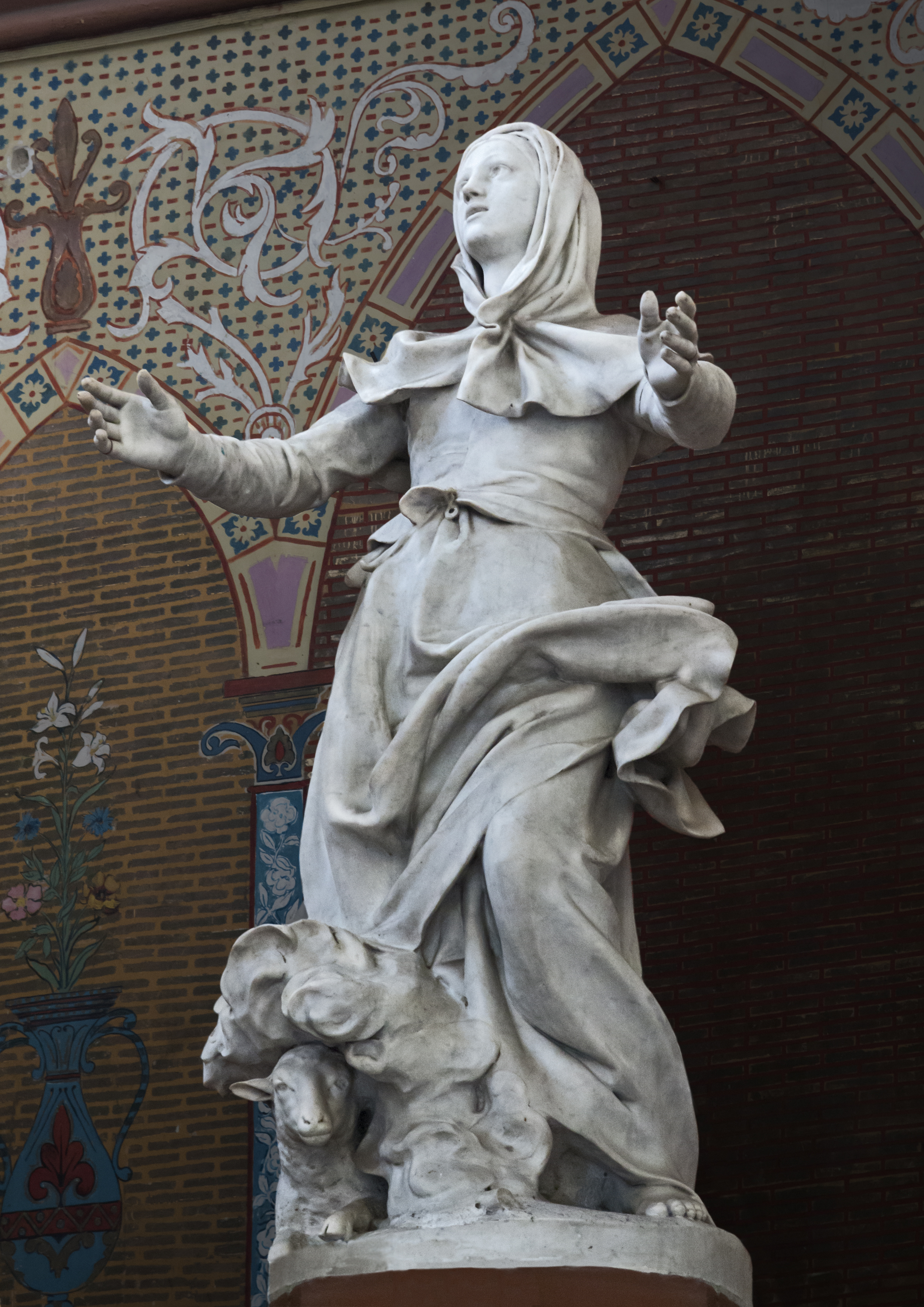 Marble statue of Saint-Germaine Cousin; by Alexandre Falguière. Originally opened in 1877, on St. Georges Place, Toulouse and moved above the altar of the church of St. Germaine.